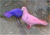 A Pigeon in Faringdon which has been dyed pink